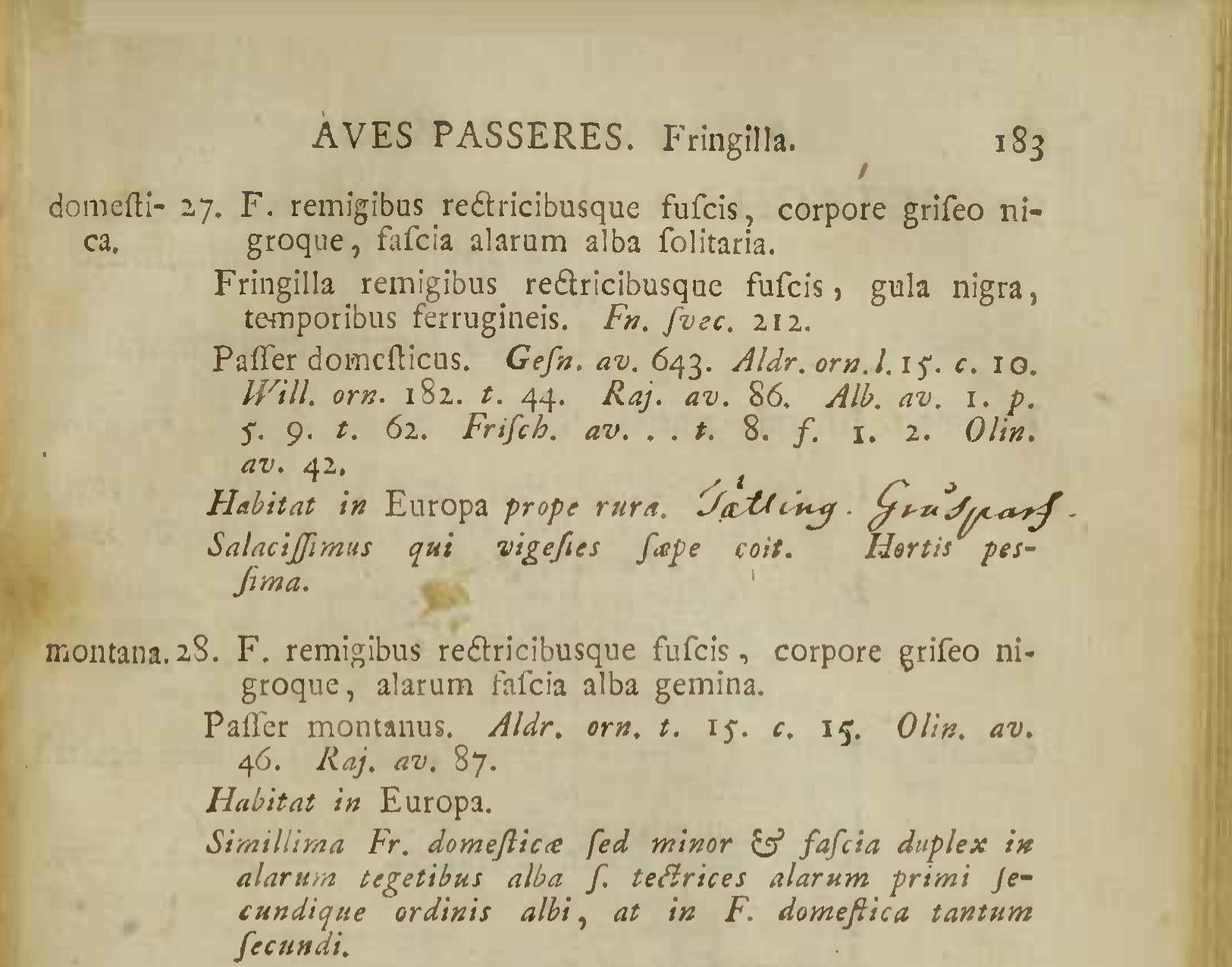 Part of page 183 of the Systema naturae covering Tree and House sparrows. It is written in Latin.